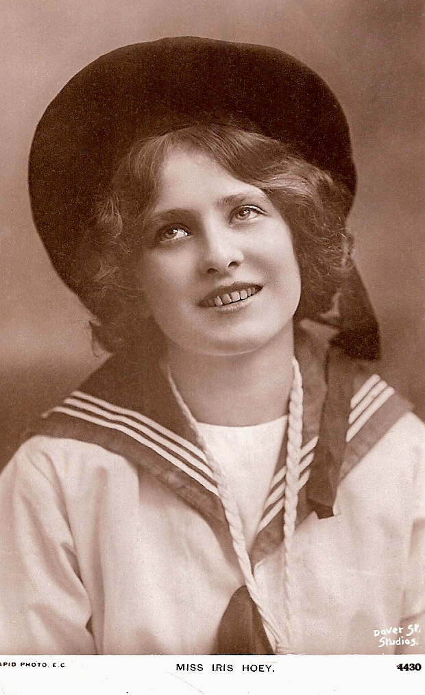 Photographic portrait of British actress Iris Hoey